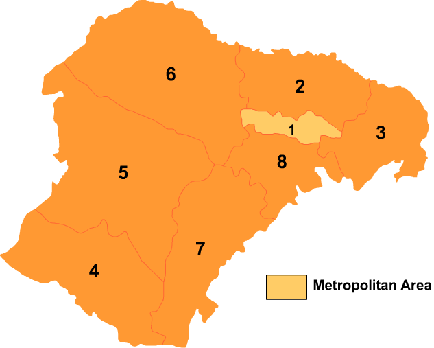 Map of Ordos in Inner Mongolia